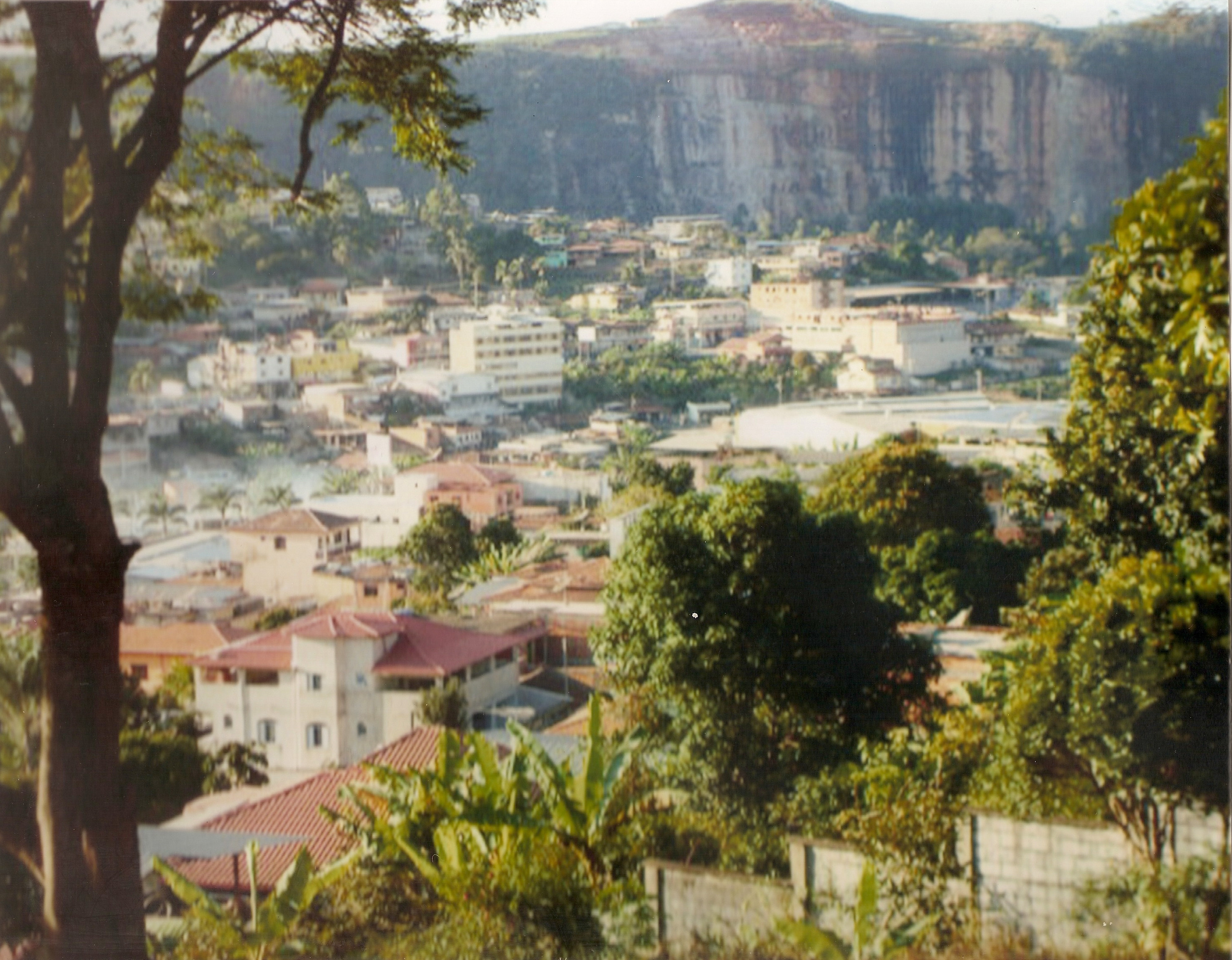 Partial view of João Monlevade, Minas Gerais, Brazil, with stones in the background.